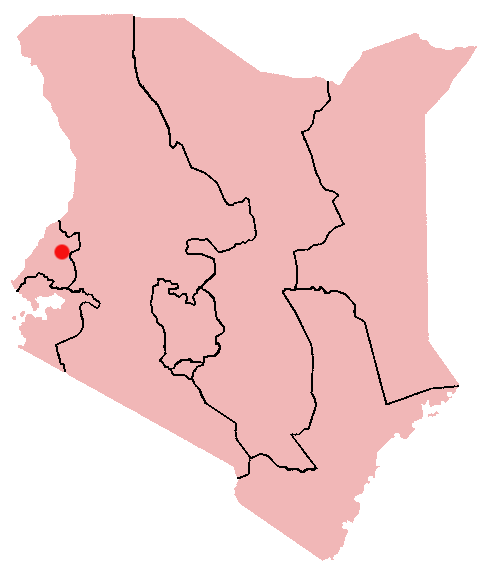 Webuye, Kenya Location Map; created with the GIMP. Made by User:Acntx.